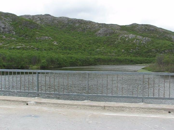 Adamsfjord nature reserve, Lebesby municipality, Norway